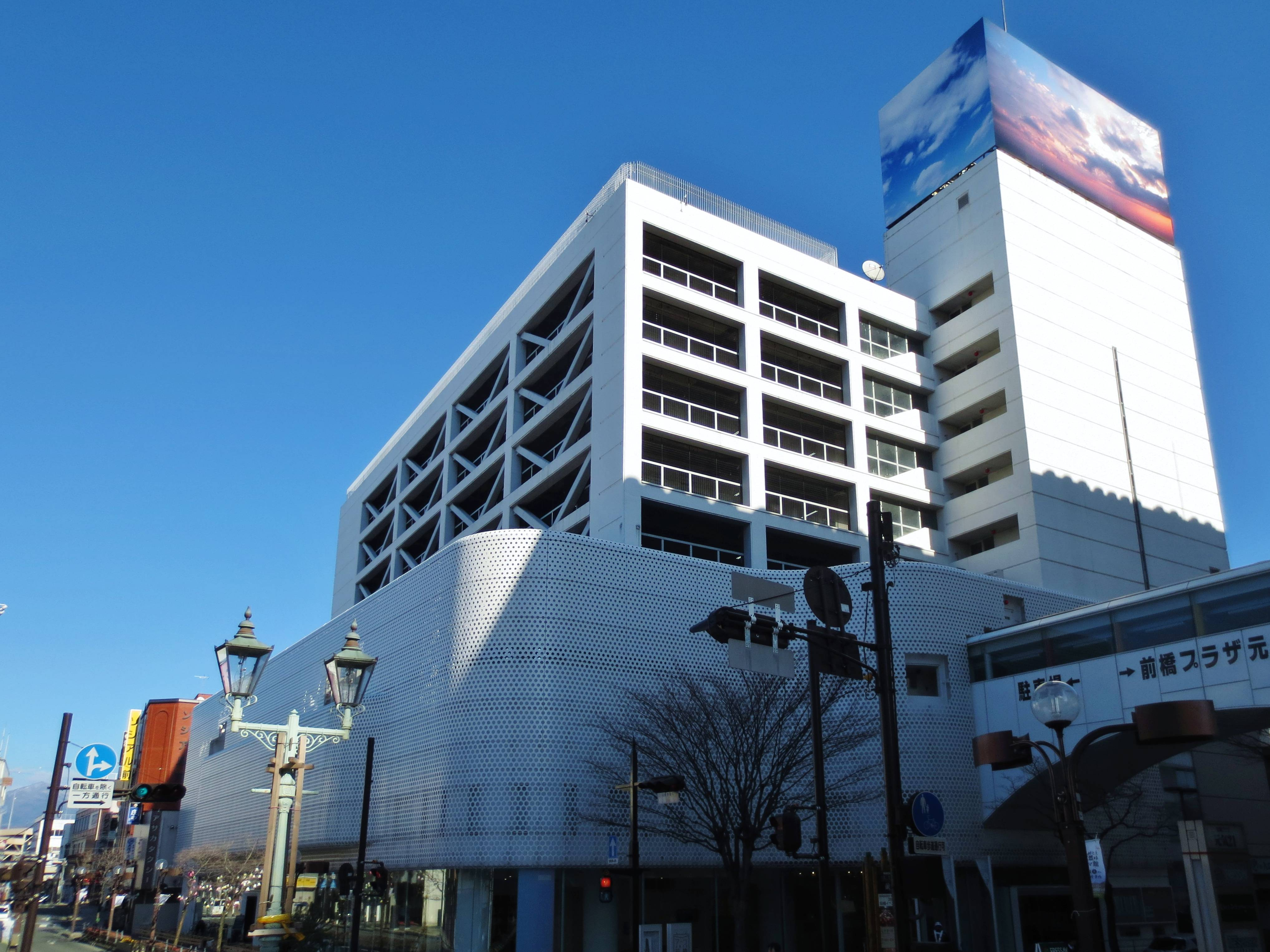 Arts Maebashi.